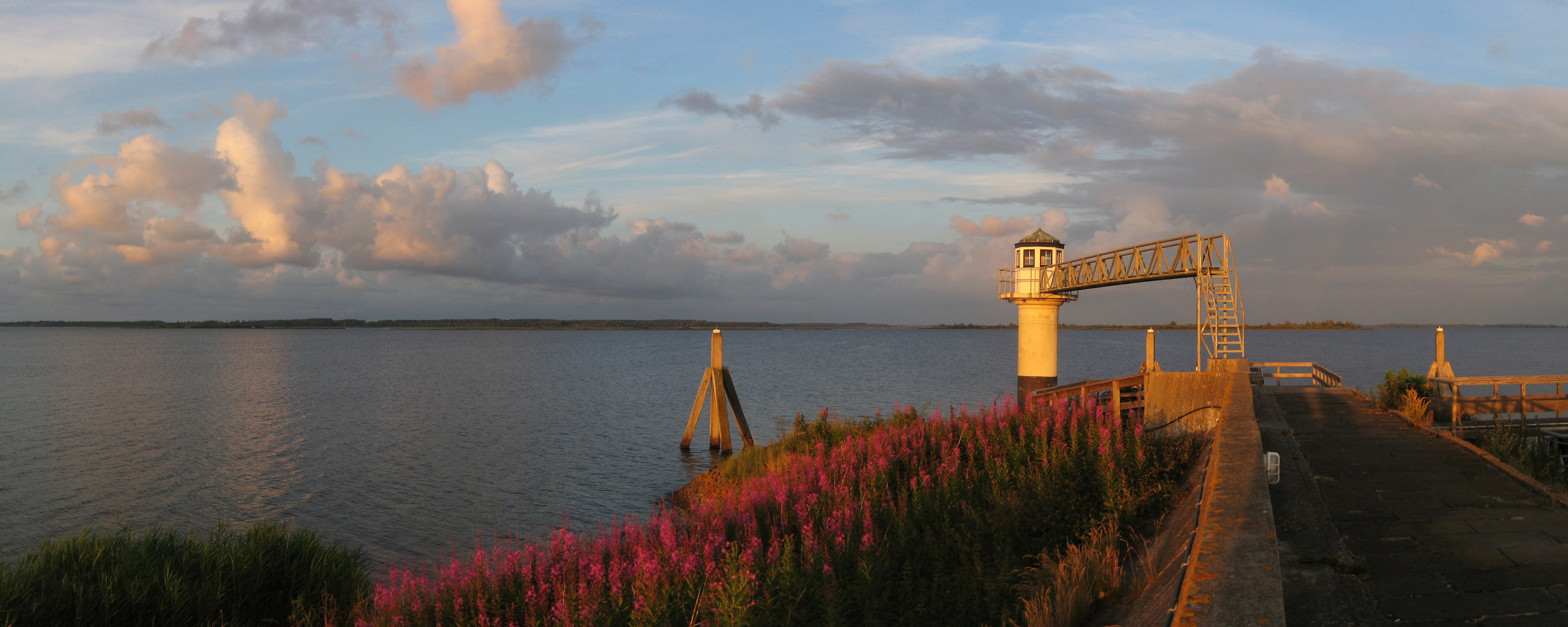 The lighthouse of Oostmahorn, a small village in the Dutch province of Fryslân.